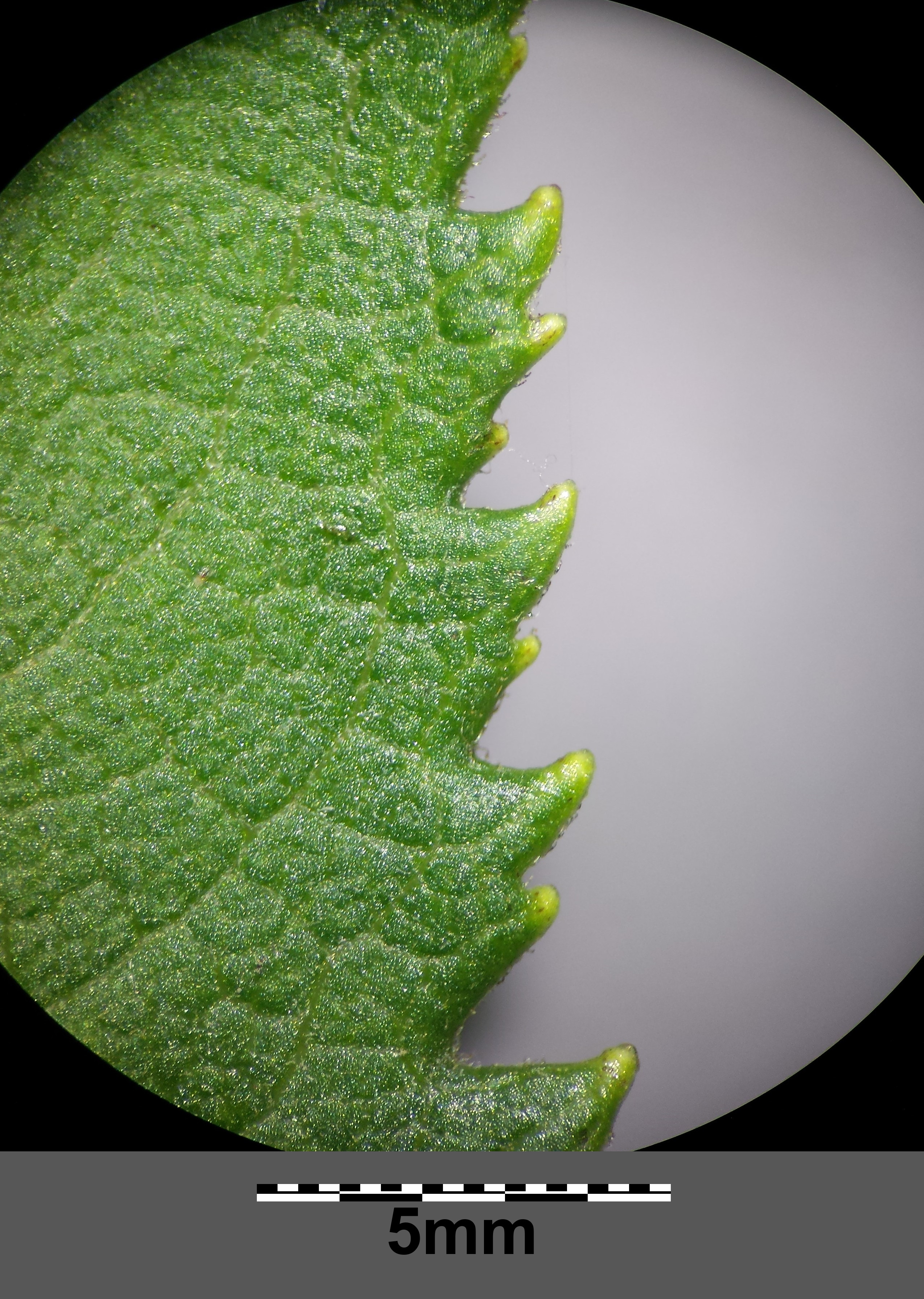 Serrate edge of leaf Taxonym: Senecio sarracenicus ss Fischer et al. EfÖLS 2008 ISBN 978-3-85474-187-9 Location: Neue Donau, Vienna-Floridsdorf - ca. 160 m a.s.l. Habitat: shore